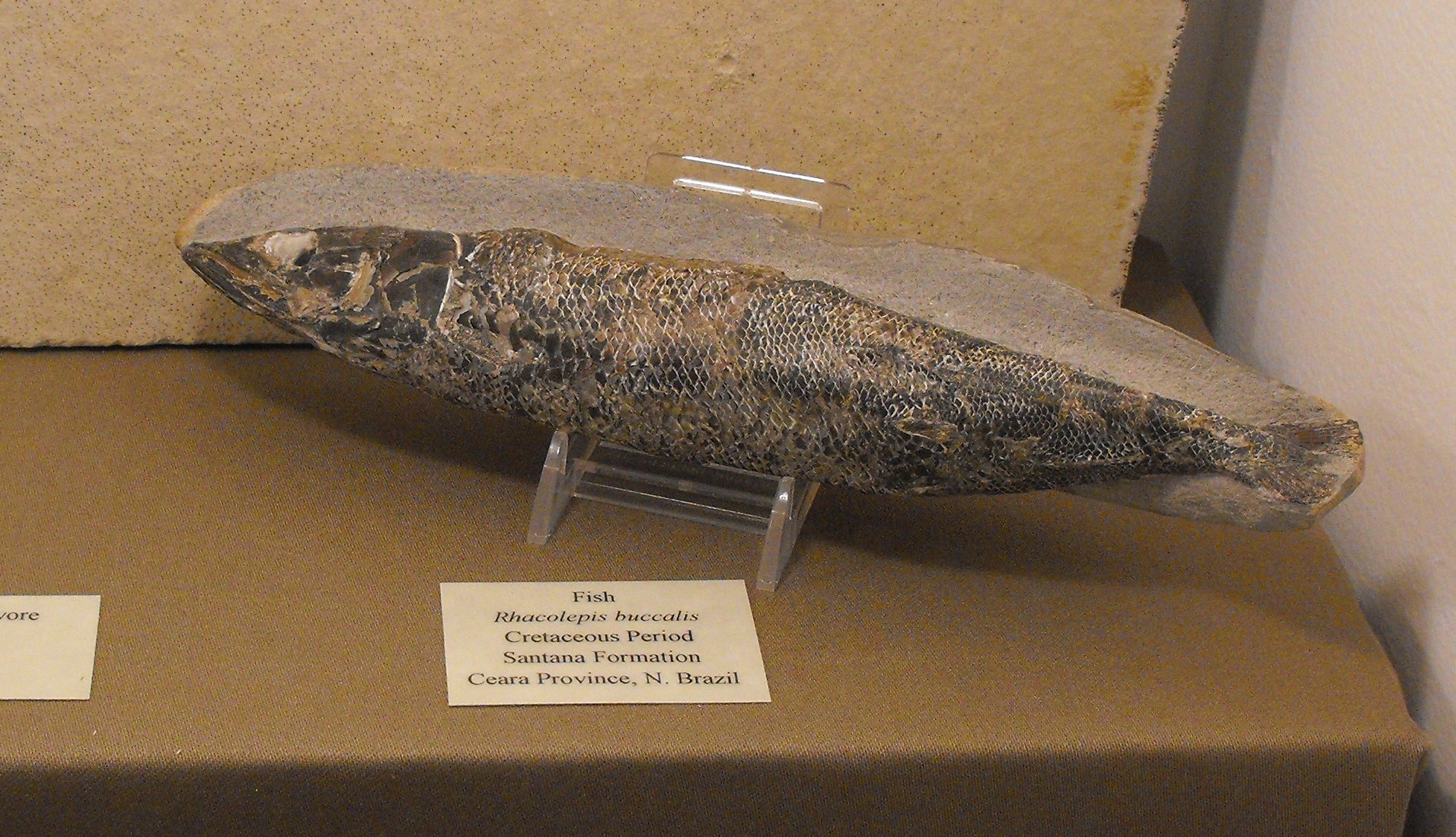 Fossil Rhacolepis buccalis on display at the San Diego County Fair, California, USA.